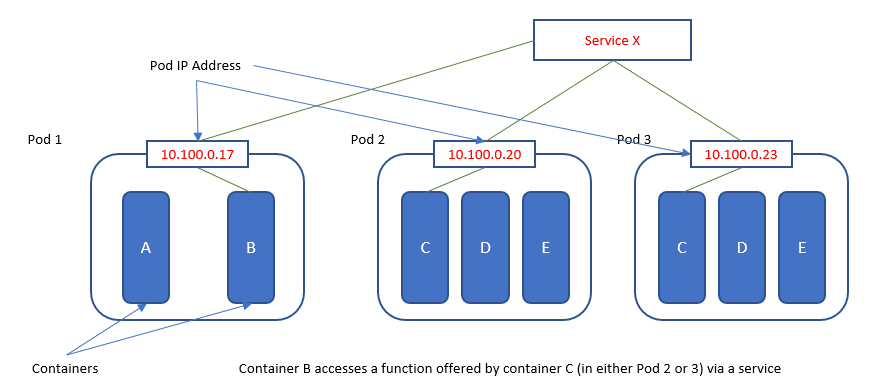 Simplified diagram of how Kubernetes uses pod networking and services to resolve network dependencies